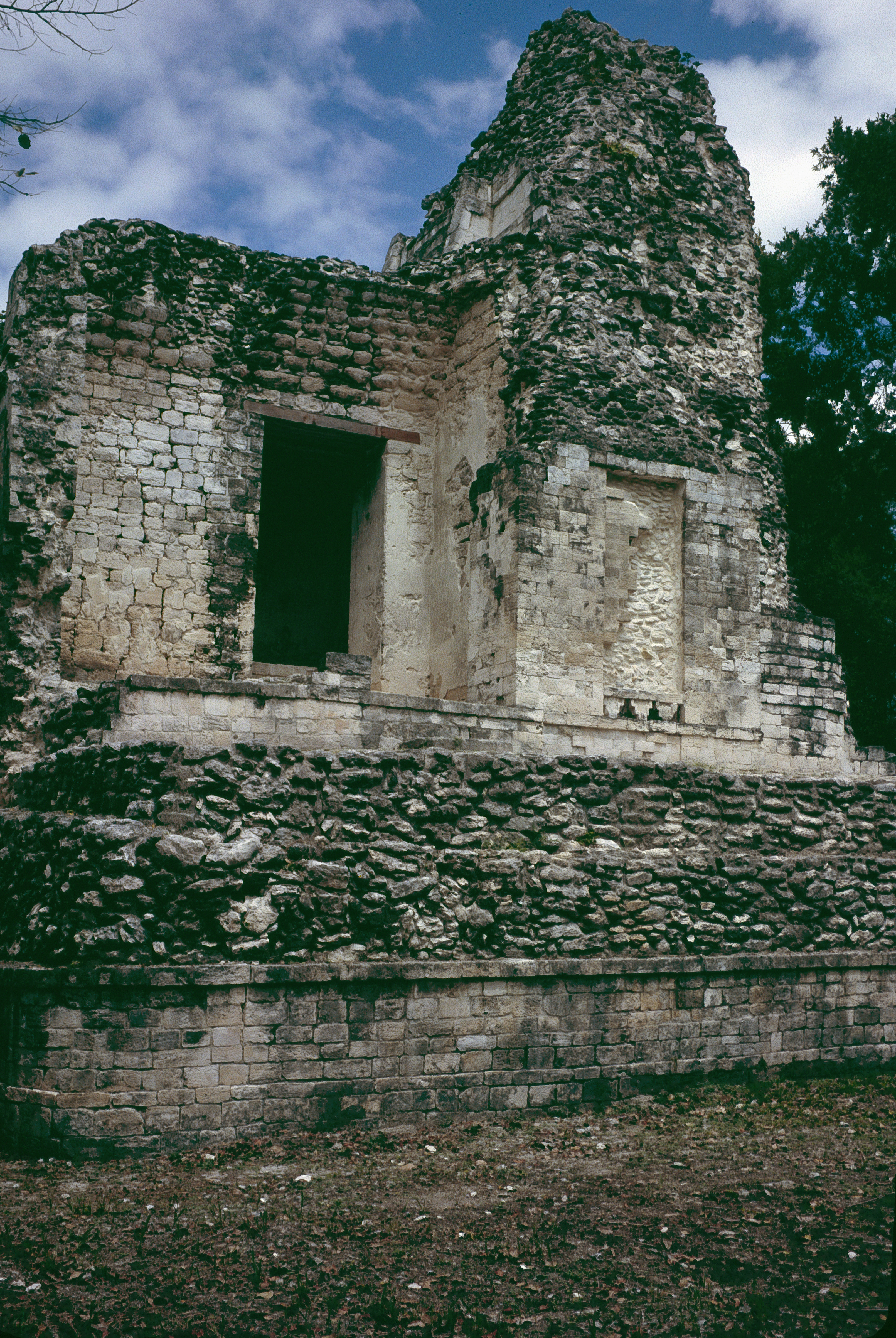 Chicanna, Campeche, Mexico: Structure I